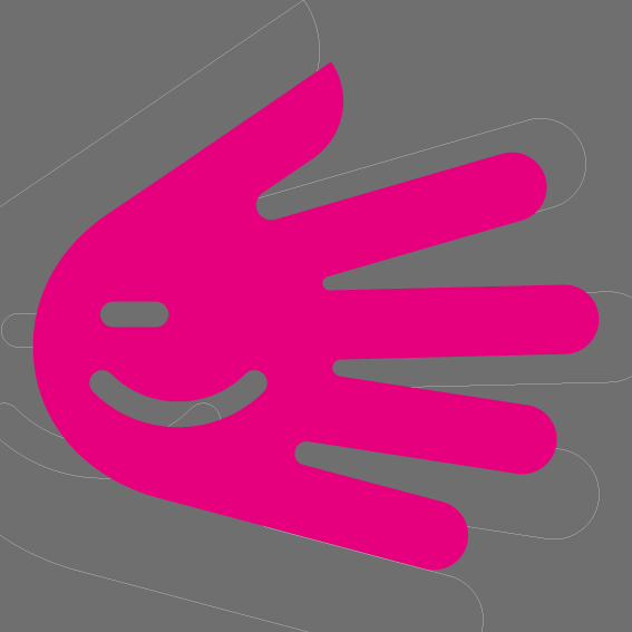 Logo of Green Social Bioethanol